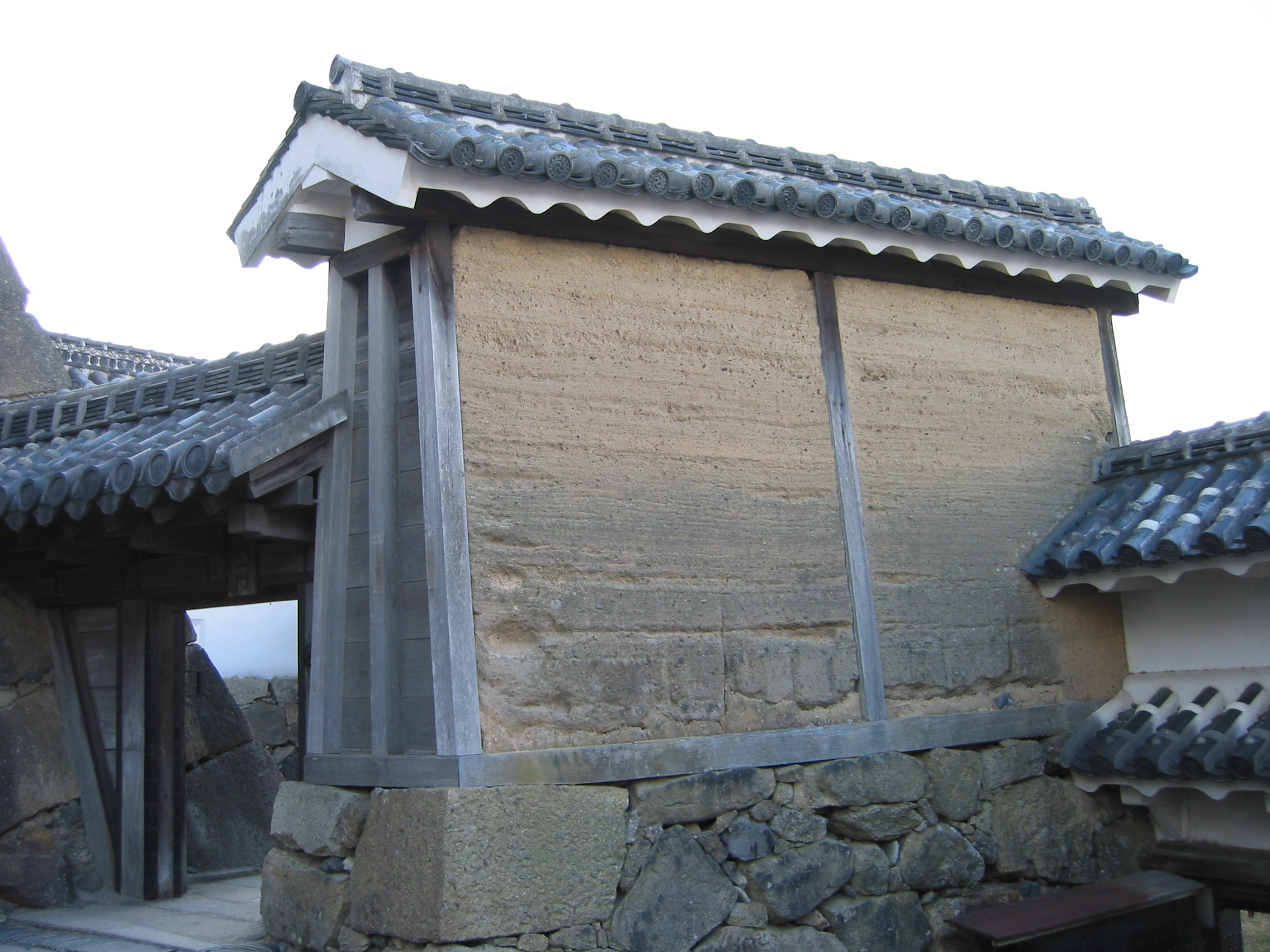 photo of Himeji Castle Aburakabe wall(in Honmaru belong to Ho-no-mon),one of oldest structures in this castle